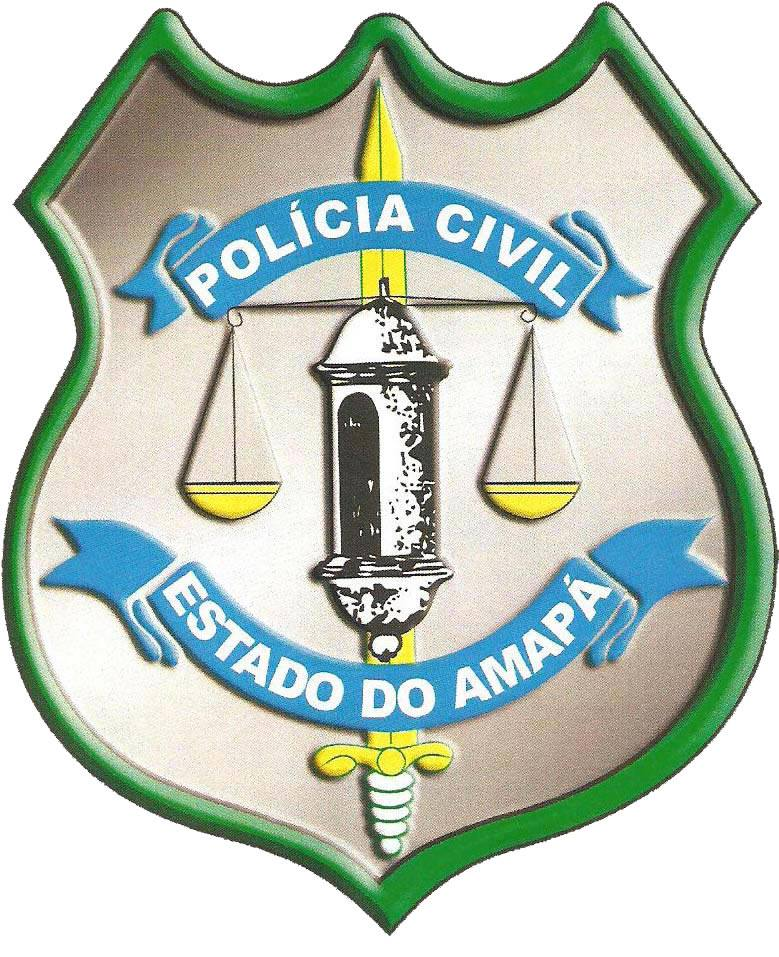 Old coat of arms of the Civil Police of the State of Amapá.